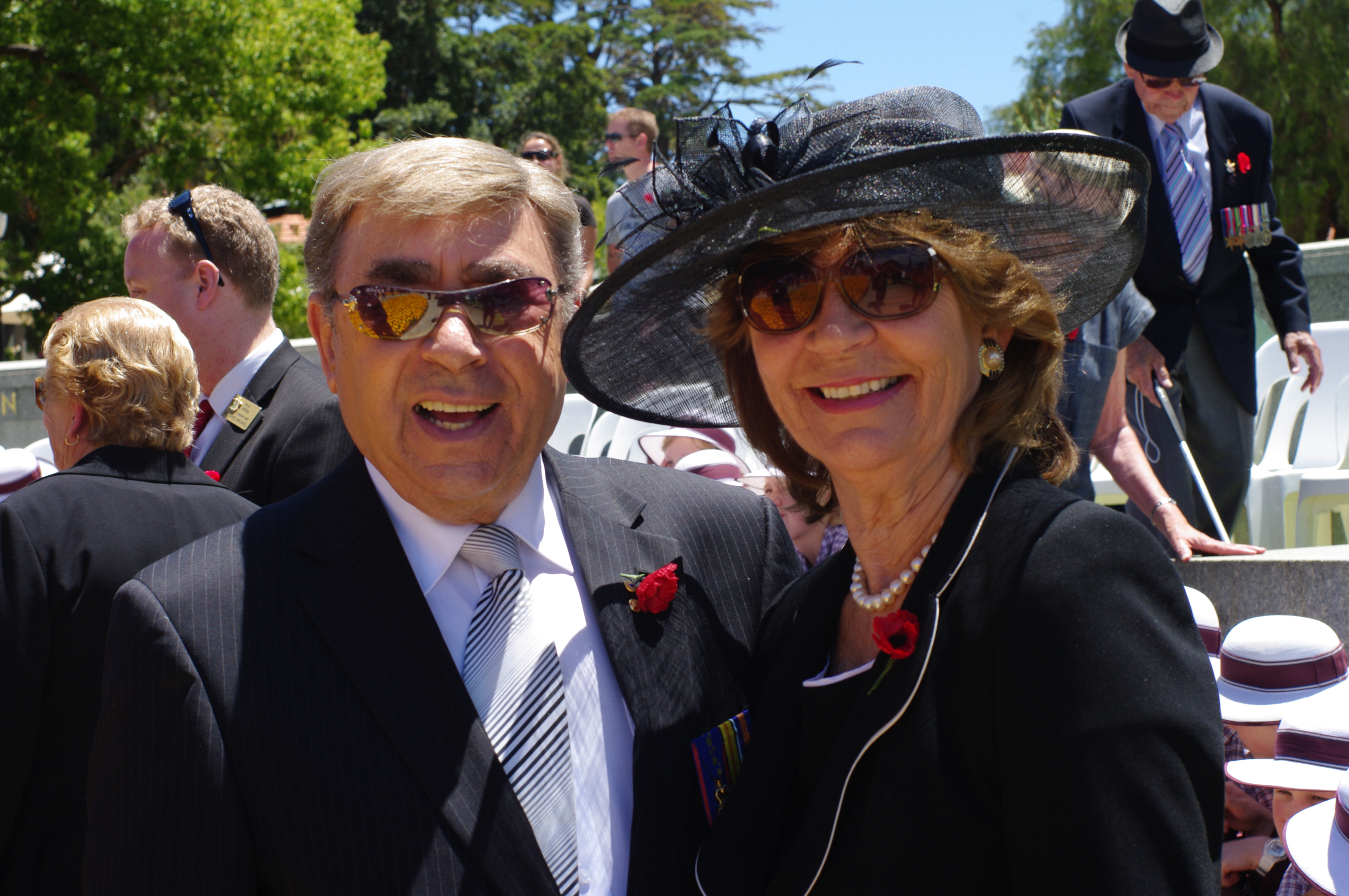 Remembrance Day service November 11 2011 Kings Park, Western Australia entertainer Max Kay